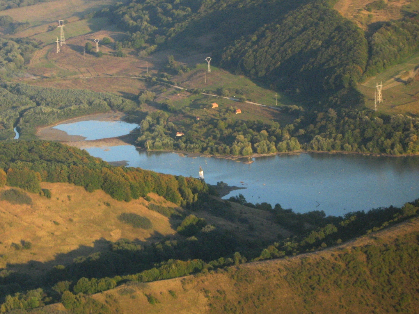 The Bözödi Lake in Transylvania